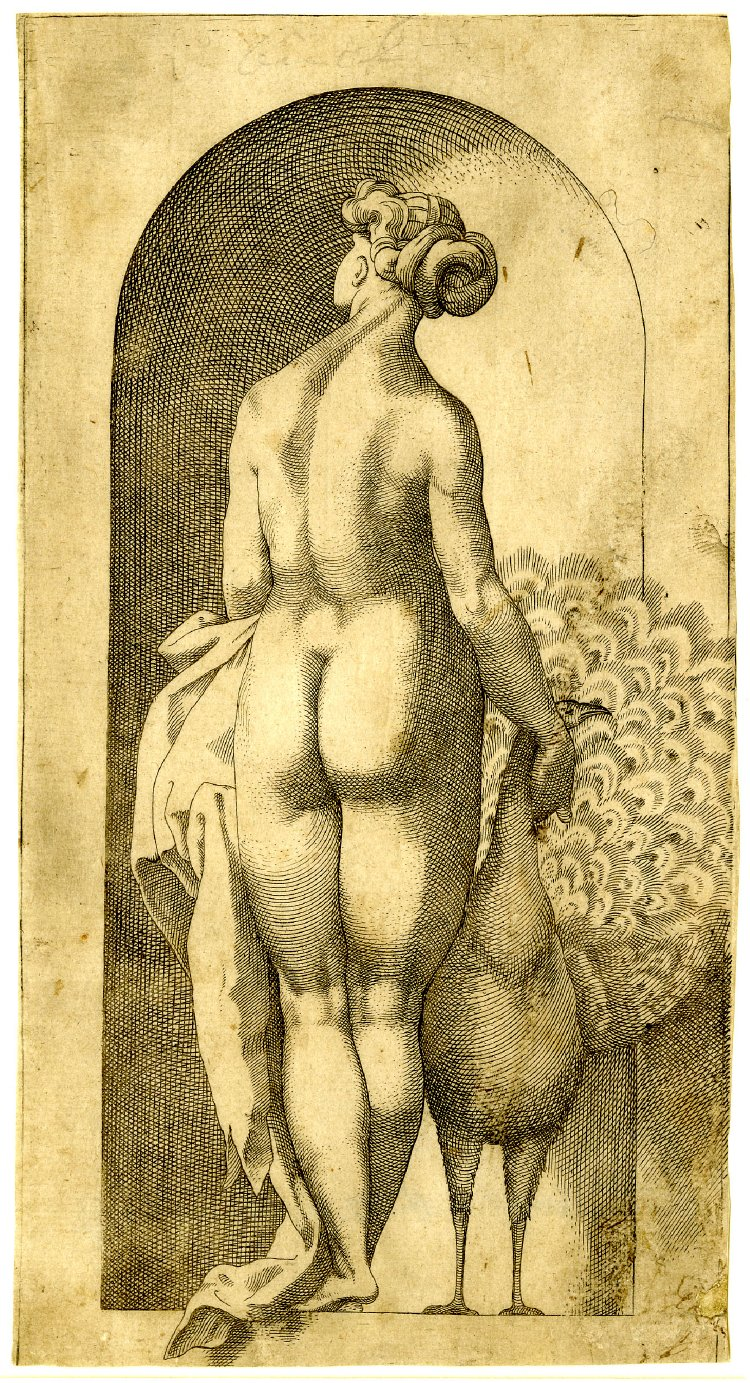 Juno standing naked viewed from behind, her right hand rests on the neck of a peacock, set within a niche, the surround of which has no shading; Jacopo Caraglio, from a series of 20 engravings depicting mythological gods and goddesses. 1526 Engraving, [1]